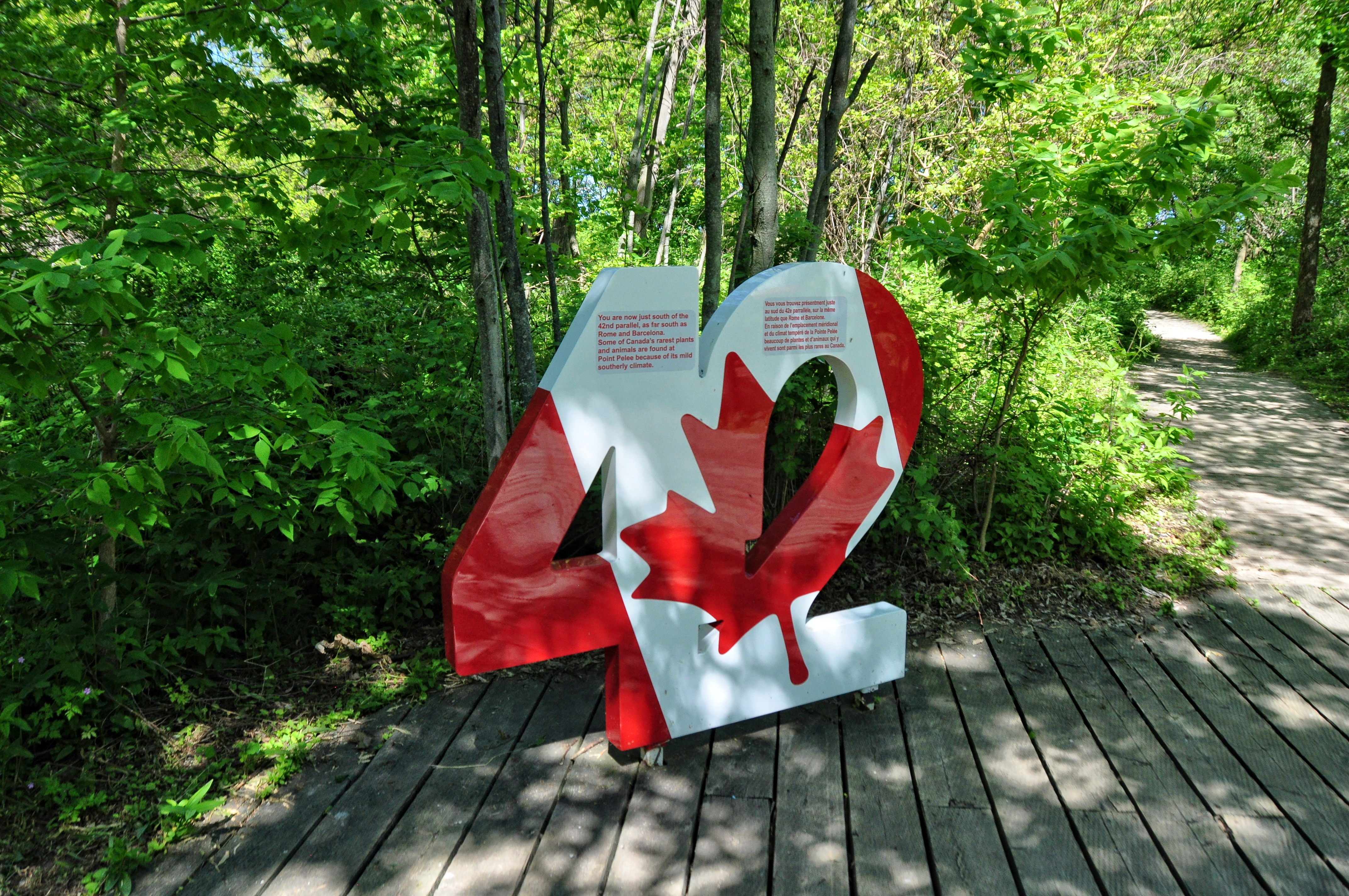 42nd Parallel sign in Point Pelee National Park (Ontario)